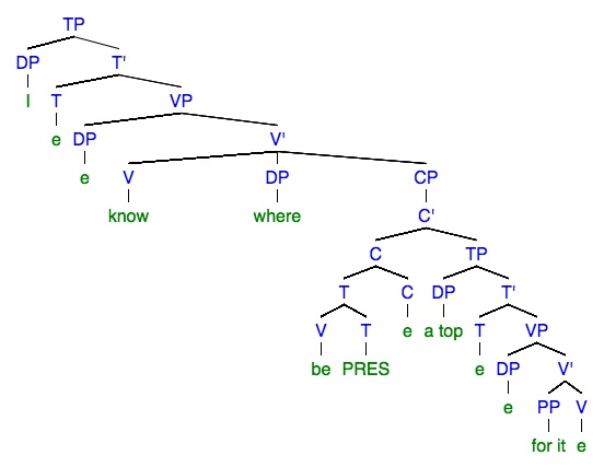 Phrase tree structure for the grammatical sentence "I know where a top for it is"